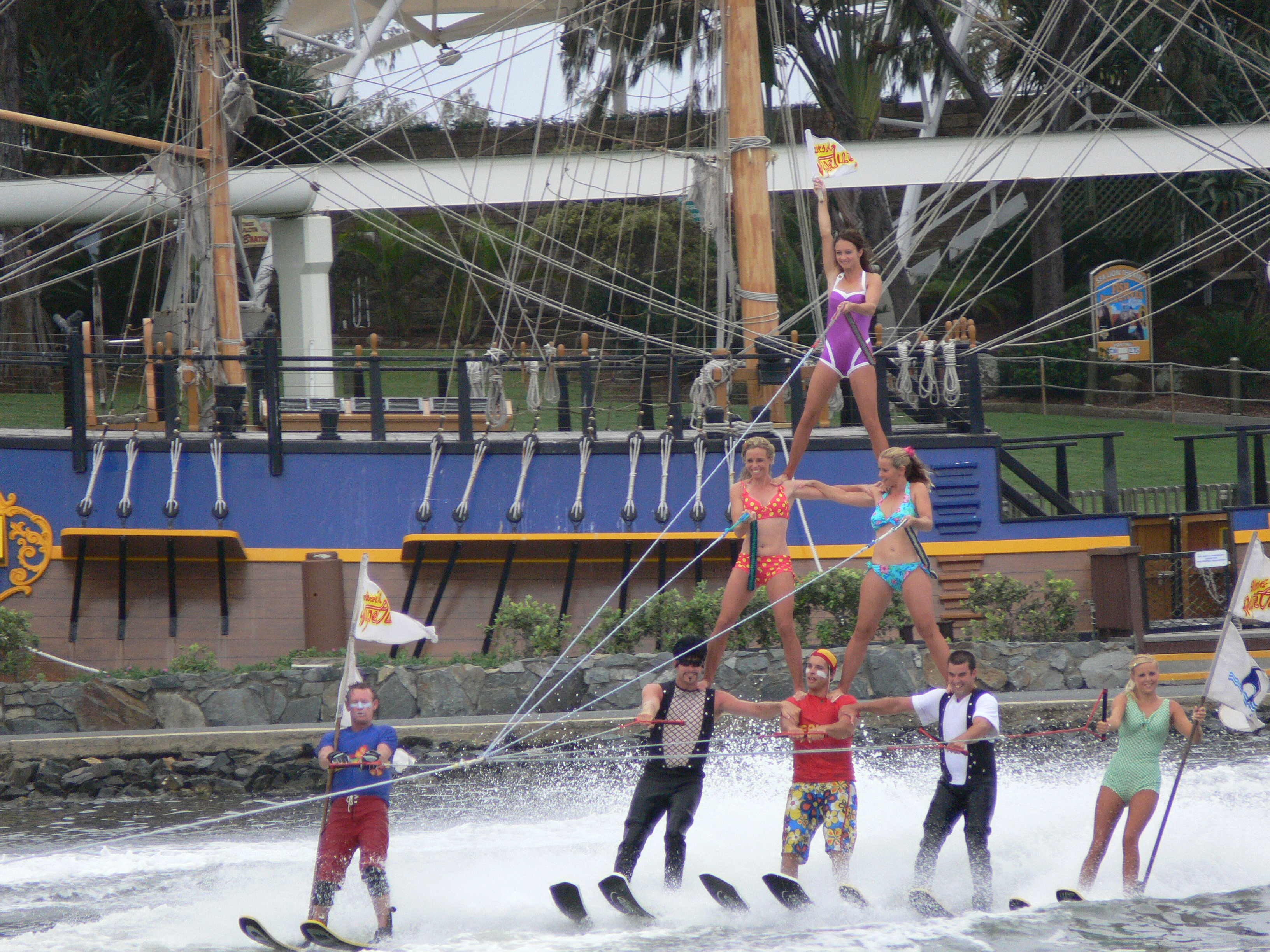 Skiing and bikini girls at Sea World on the Gold Coast.